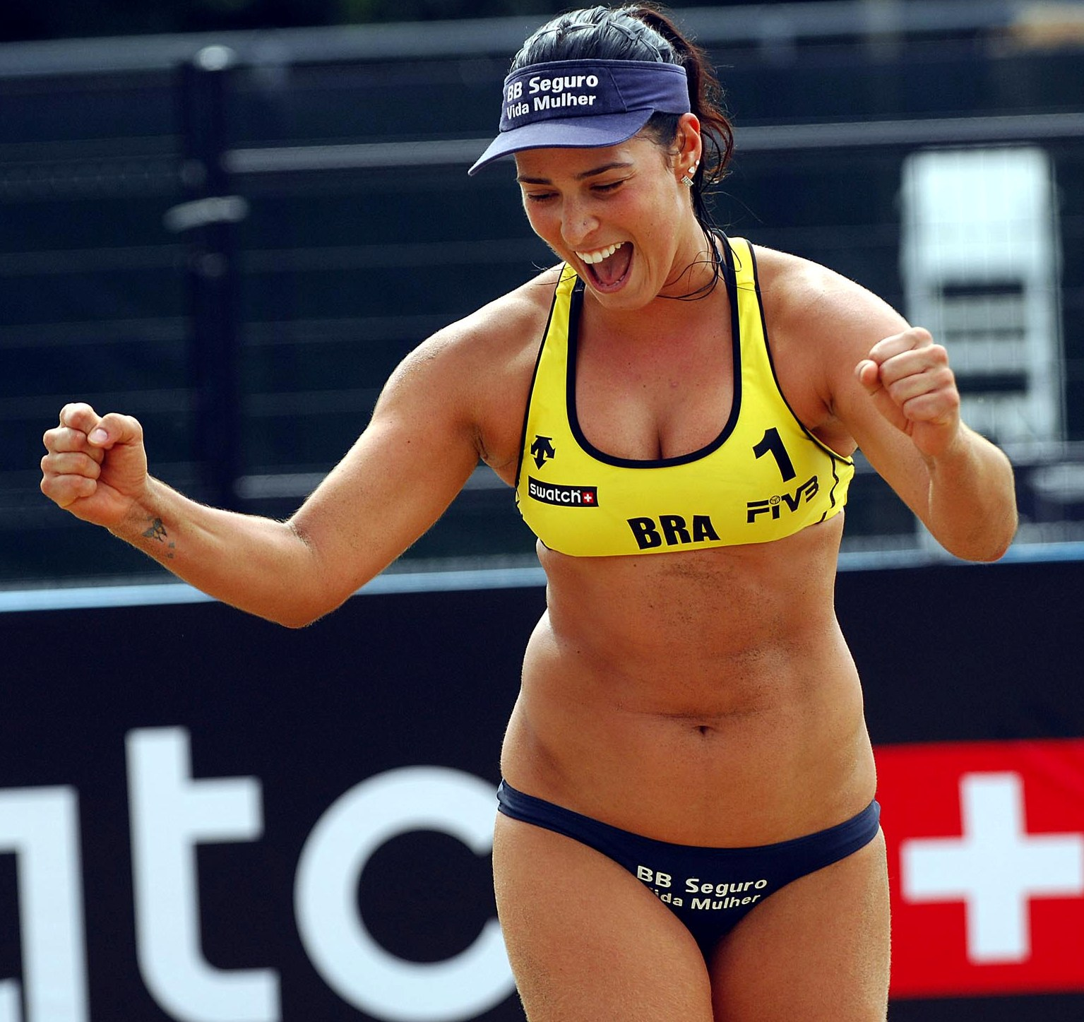 Ágatha Bednarczuk - a Brazilian international beach volleyball player